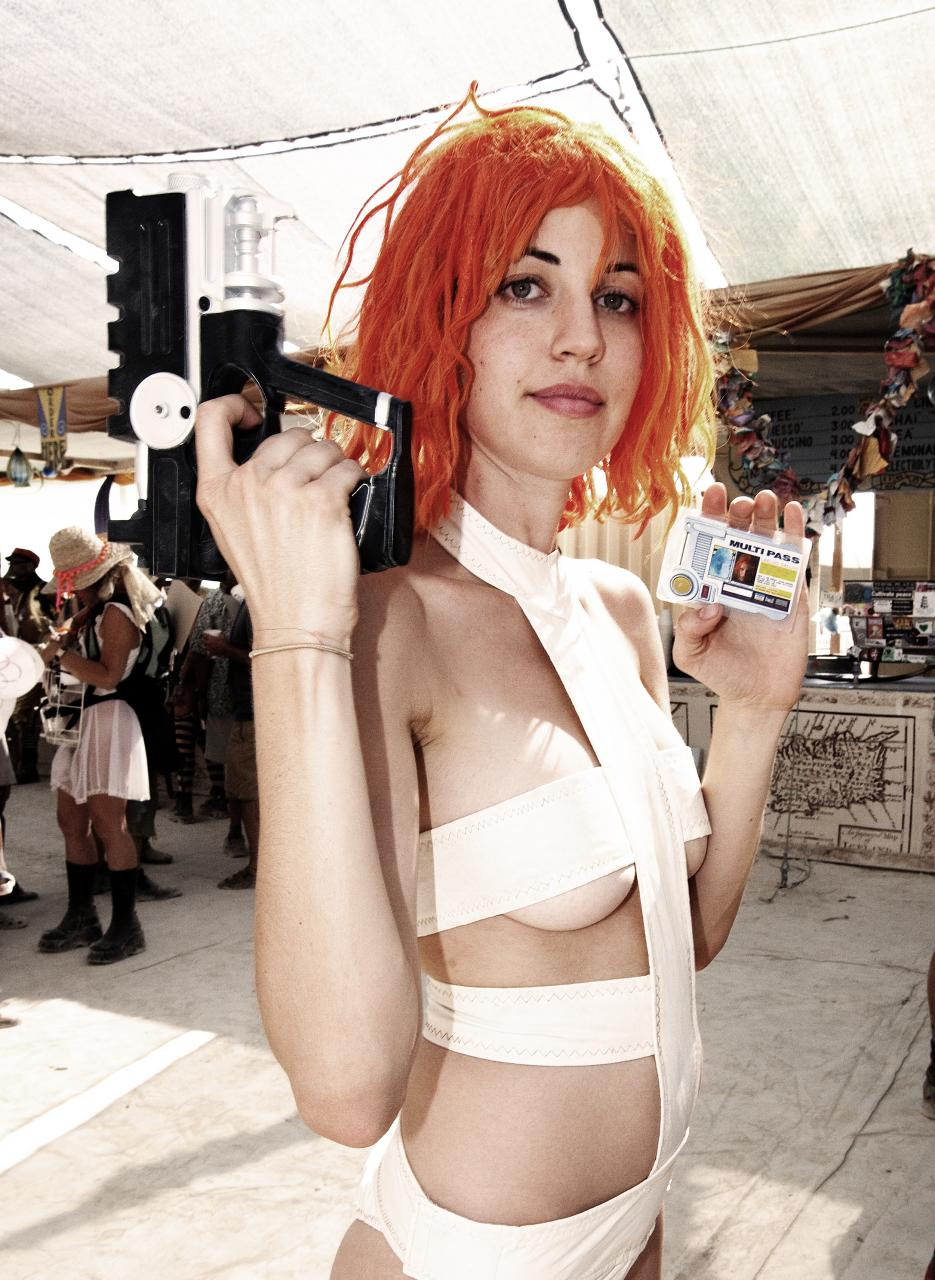 Woman dressed as Leeloo, a character from The Fifth Element